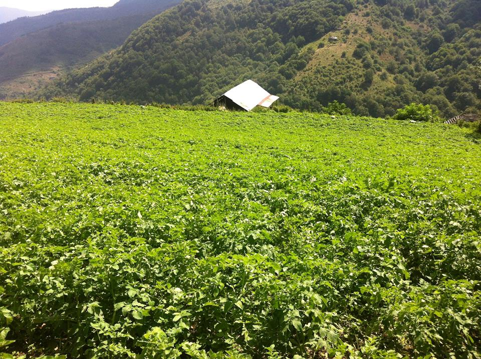 Natyra e Brezes